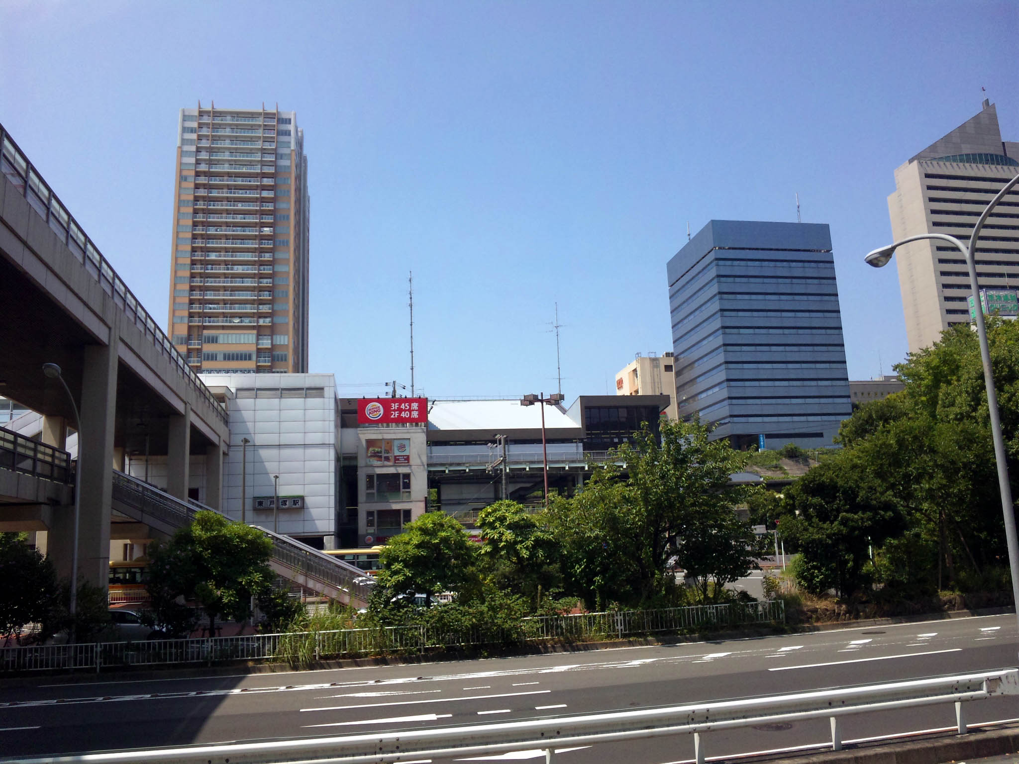 higashitotsuka station(yokohama)